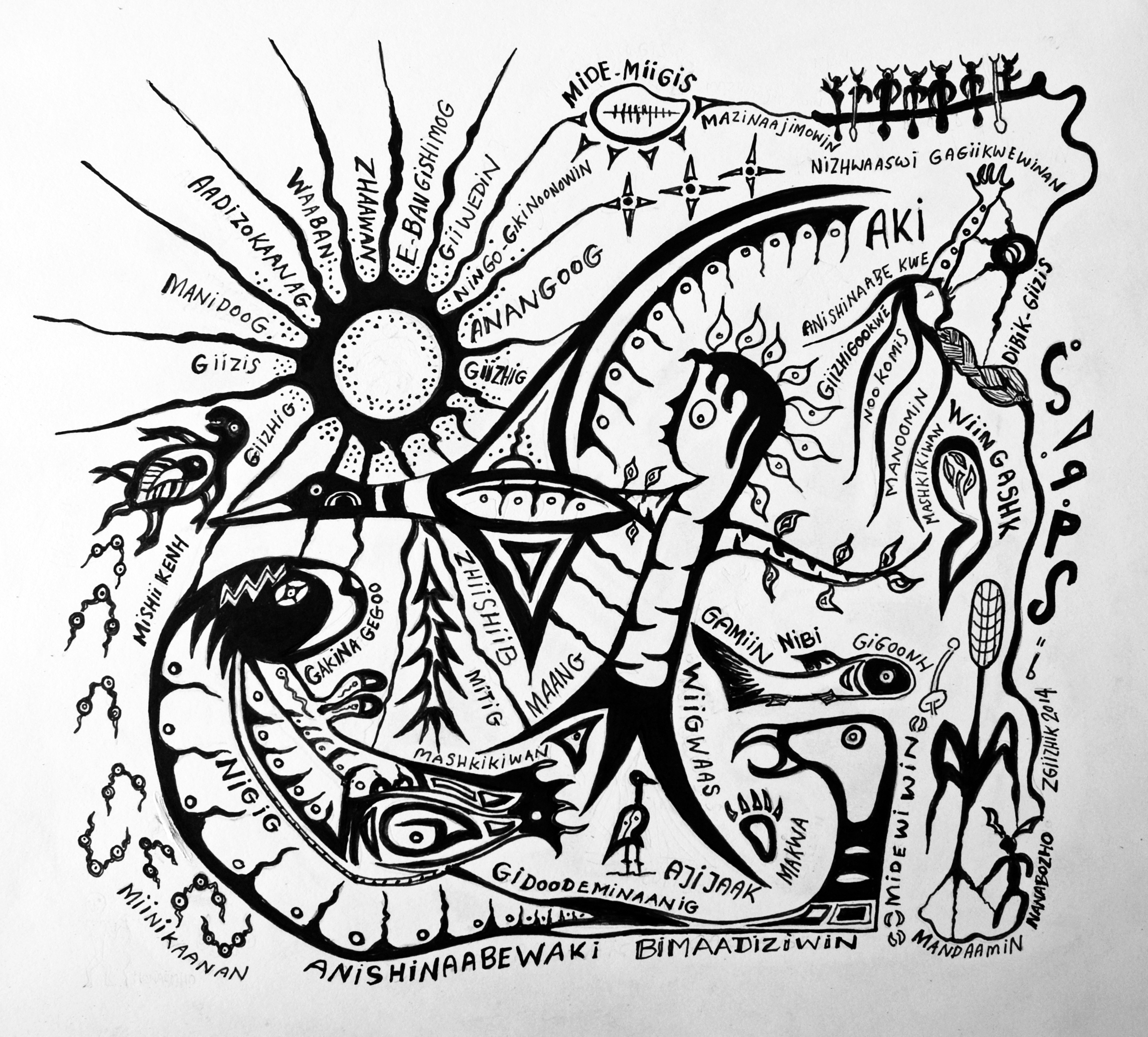 Outline drawing created in the ‘Pictorial Legend’ fashion of the Canadian Woodland (or Medicine) Painters, depicting several images – representing various layers of symbolic, metaphorical meaning – and their corresponding NAMES. The images demonstrate a cross section of Anishinaabe Izhinamowin: the traditional world-view of the Ojibwe Anishinaabeg, who for at least 1000 years inhabit the North American Great Lakes area.